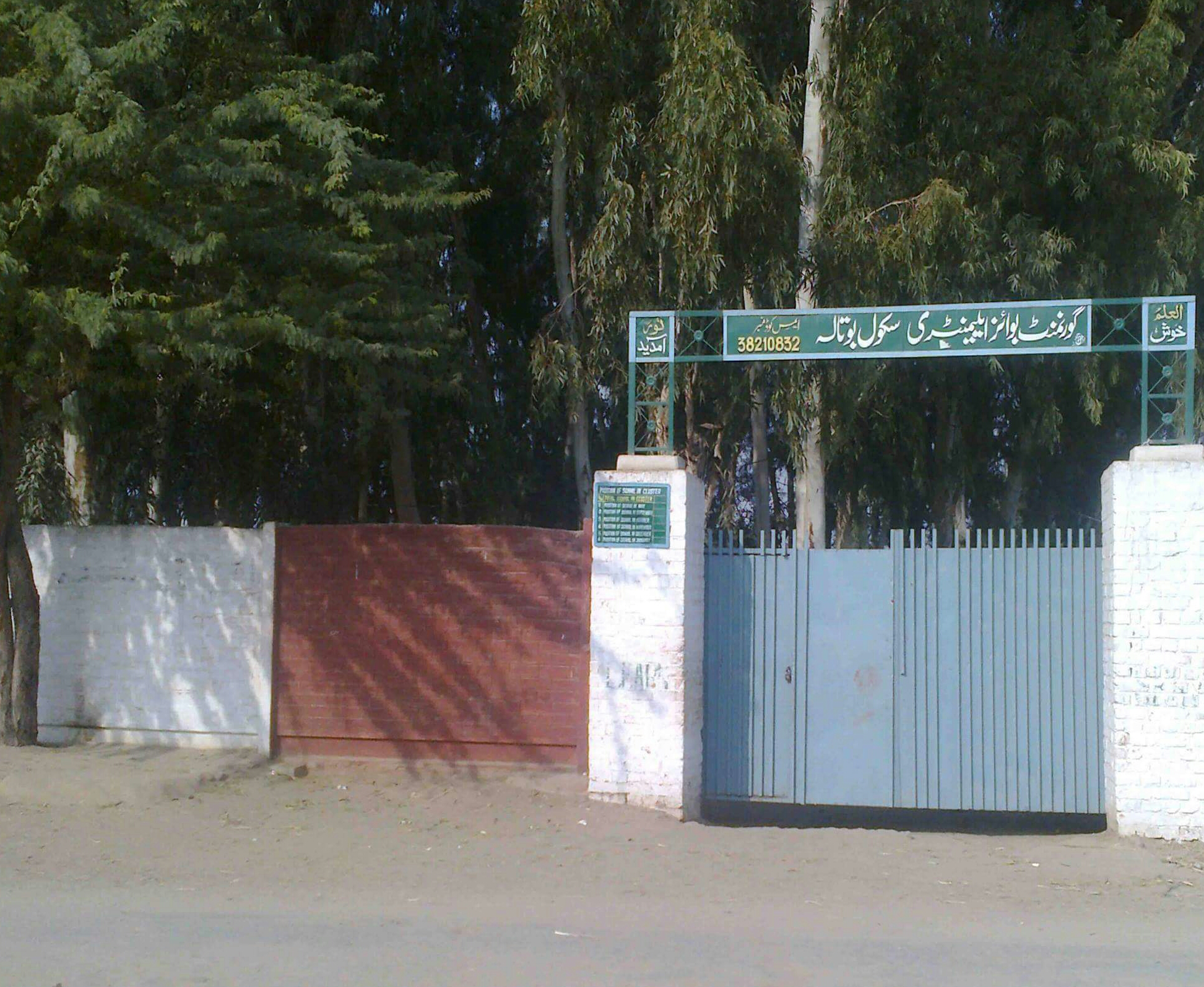 I also Uploaded this Photo on Botala Facebook Page & on website